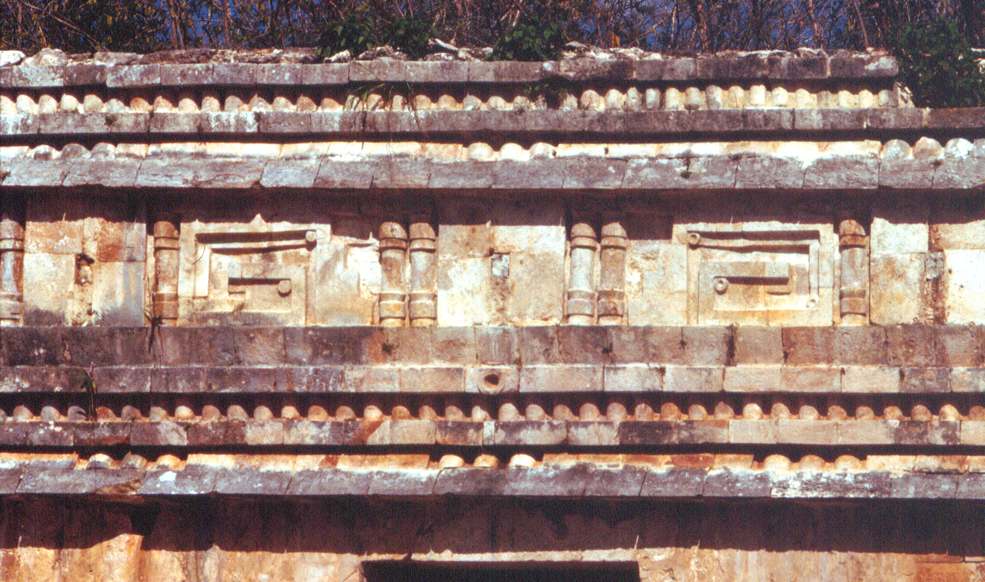 Chunhuhub,Campeche, Mexico. Main building, southern part, fassade.